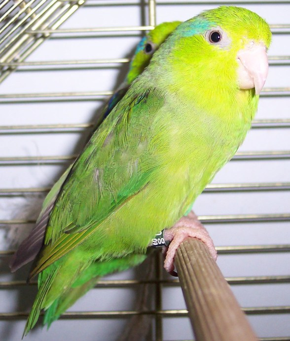 Description/Beschreibung: Blaunacken-Sperlingspapagei ♀ (Forpus coelestis) im Alter von 4,5 Jahren; Photograph/Fotograf: Gary Luck first upload in de wikipedia on 16:13, 8. Jun 2004 by Gary Luck